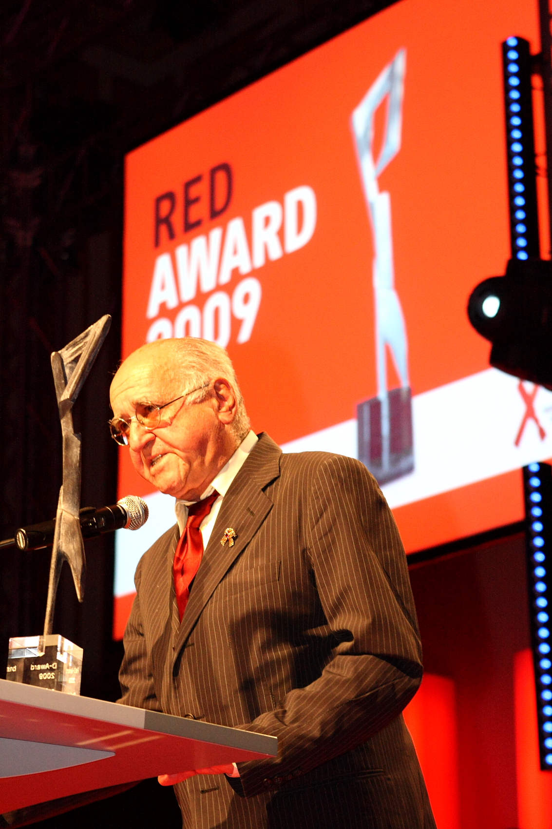 Verleihung des ReD Award 2009